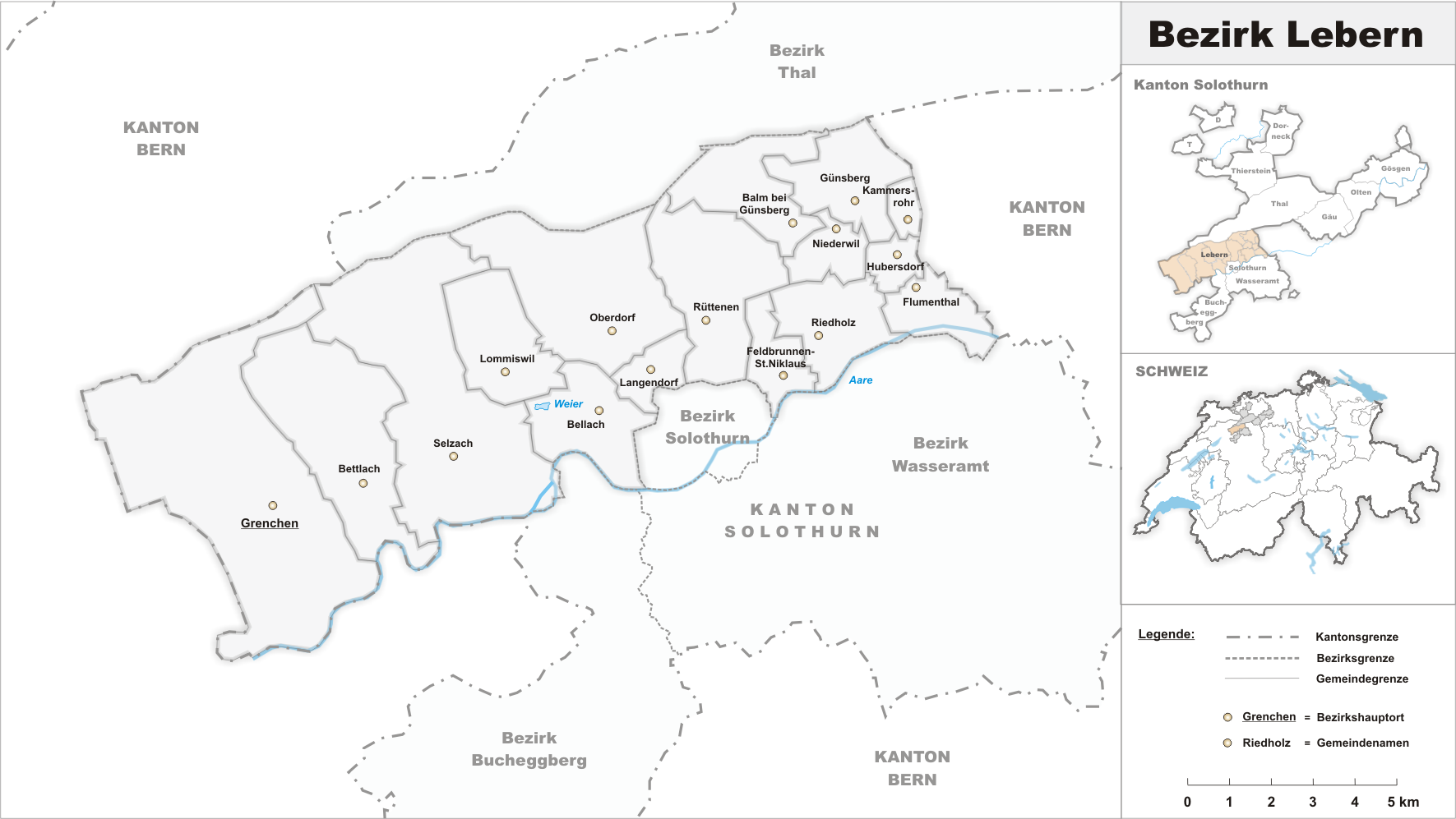 Municipalities in the district of Lebern